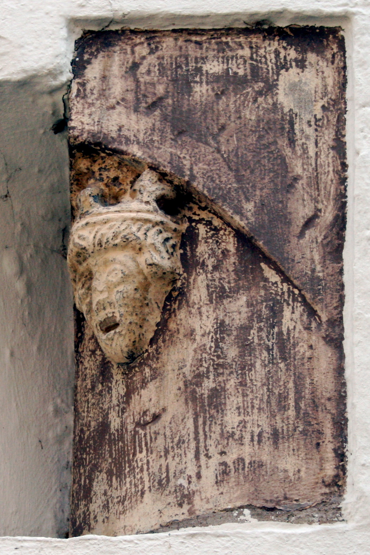 Town Hall-Eisleben-Detail